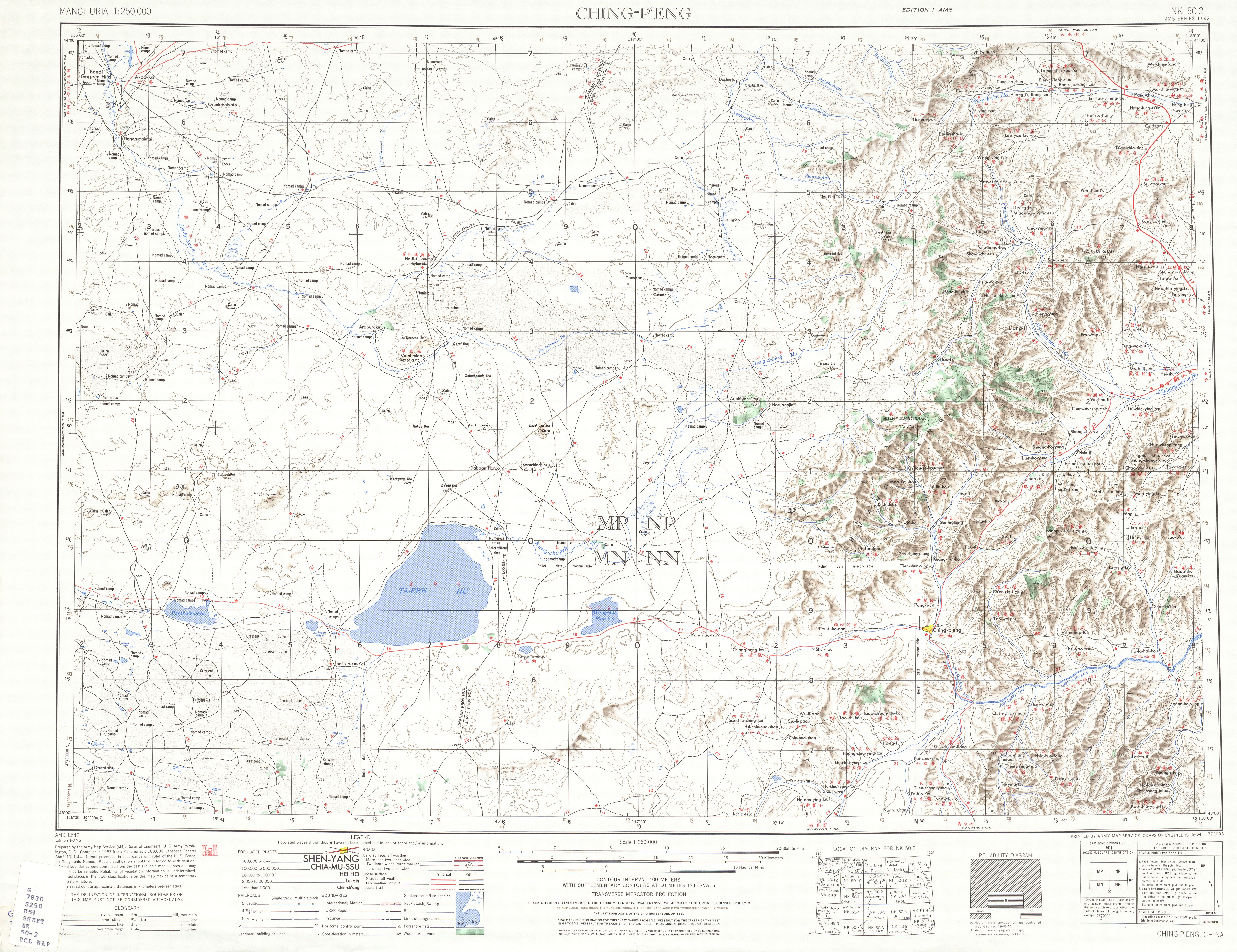 Manchuria AMS Topographic Maps